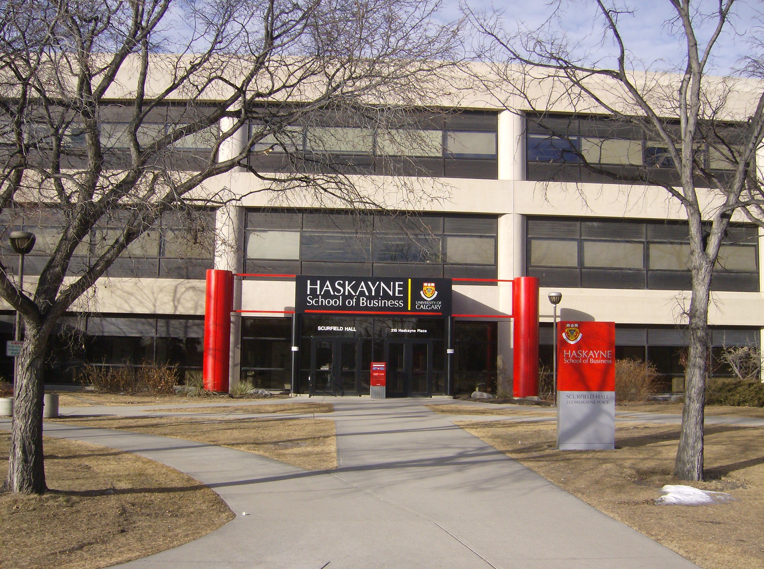 Haskayne School of Business, at the University of Calgary in Calgary, Alberta, Canada.